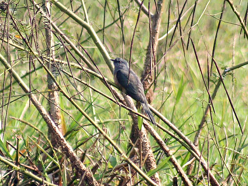 Plaintive Cuckoo Cacomantis merulinus in Kolkata, West Bengal, India.